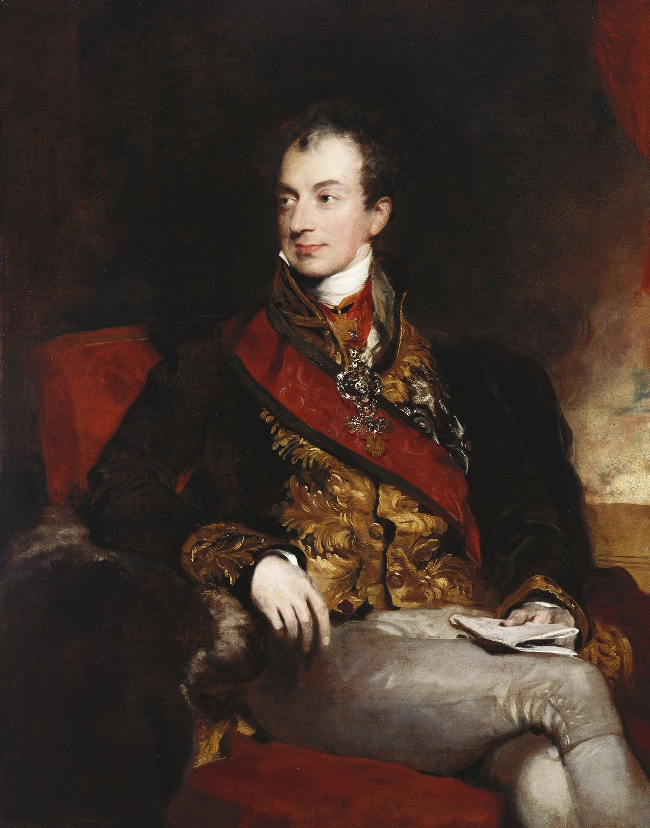 First exhibited in 1815, the portrait was probably revised in 1818/9 [1]